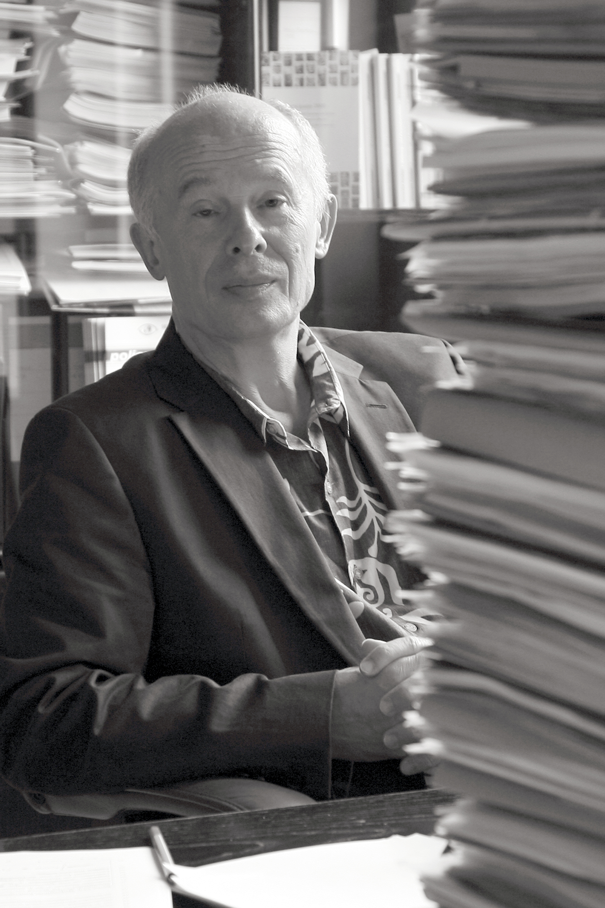 Portrait Prof John Schellnhuber